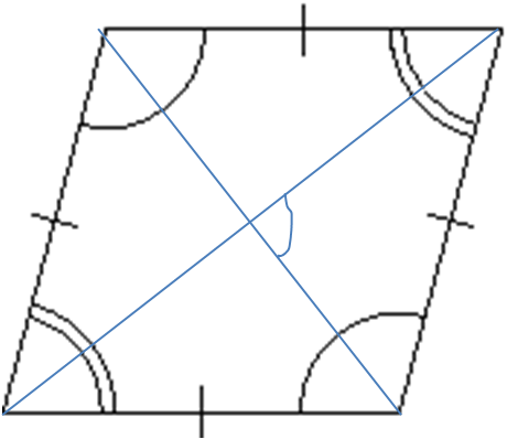 A rhombus with the properties of: All four sides are congruent Diagonals bisect opposite angles Diagonals are perpendicular